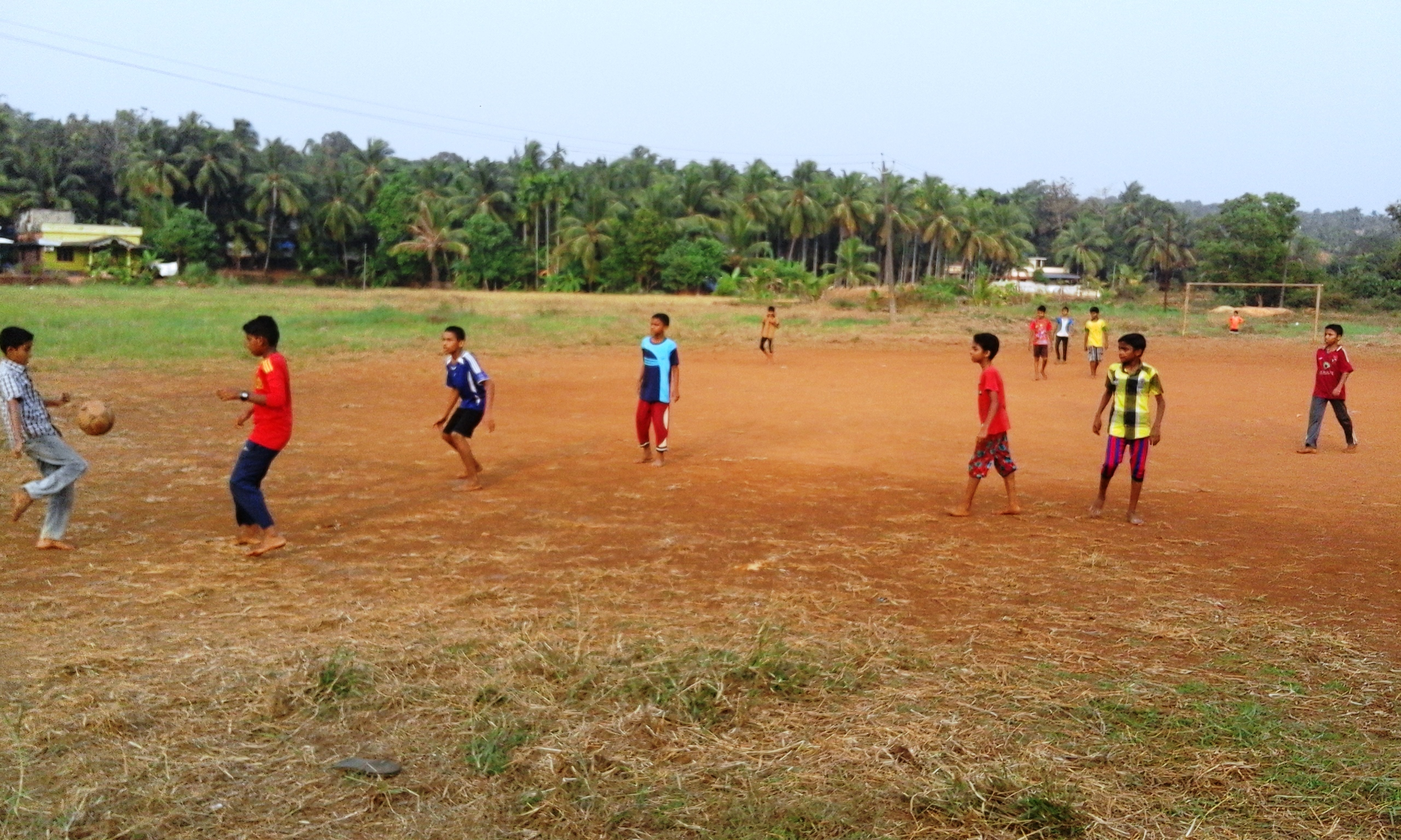 Pallikkal Bazar, Chelari, Malappuram Dt, Kerala, India.